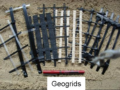 Geogrids